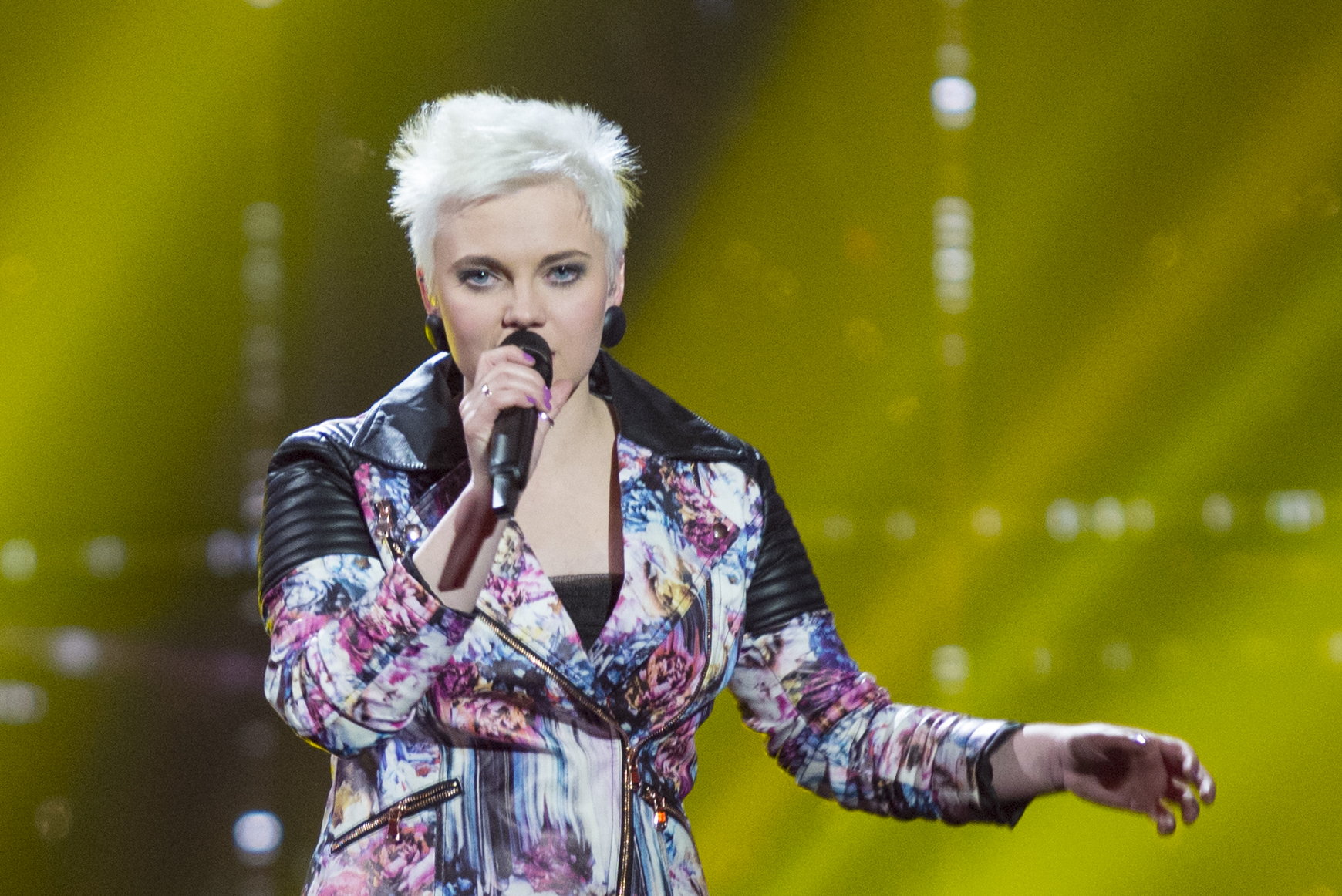 Elaiza representing Germany with the song "Is It Right" during the first dress rehearsal of the final of the Eurovision Song Contest 2014 Copenhagen. (Help translate this text)